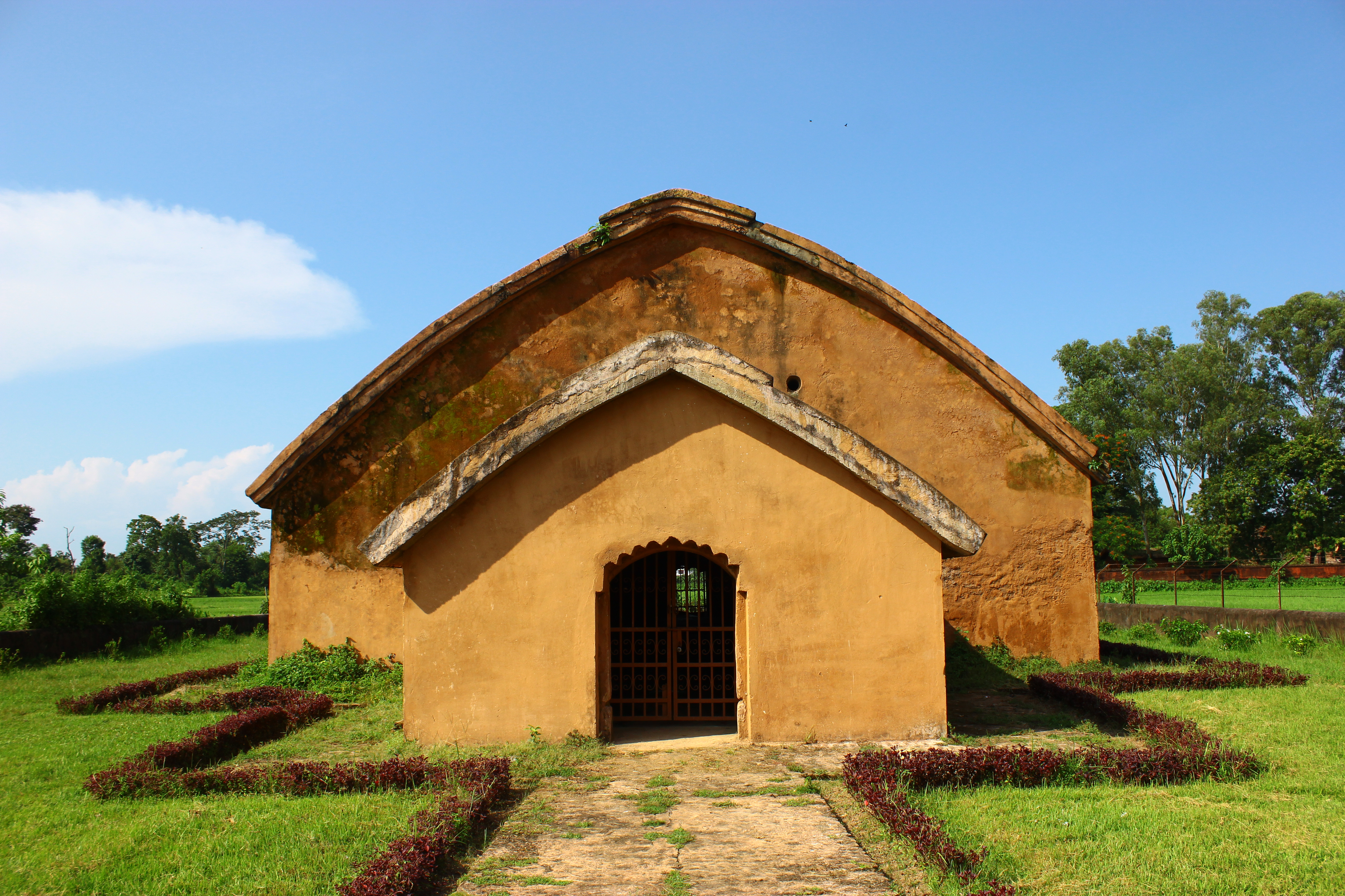 Golaghar